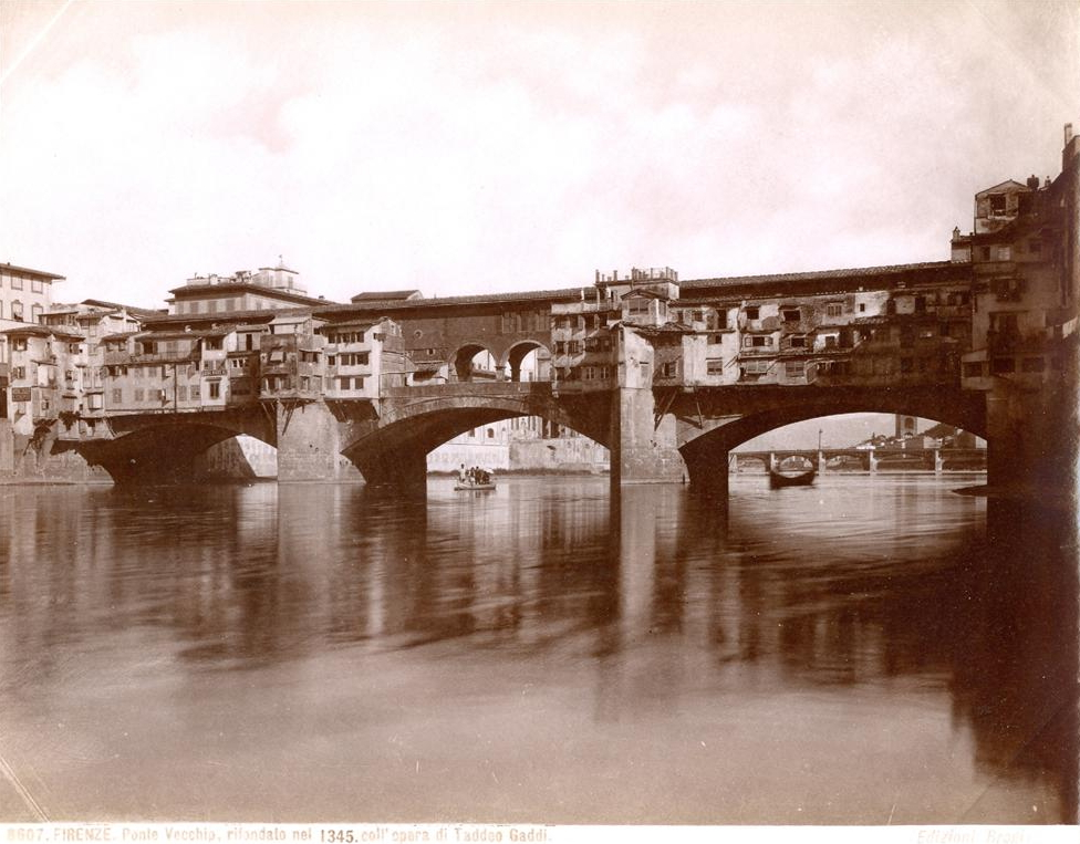 Carlo Brogi (1850-1925) - "Florence - Ponte Vecchio bridge, rebuilt in 1345 by Taddeo Gaddi". Catalogue # 8607.